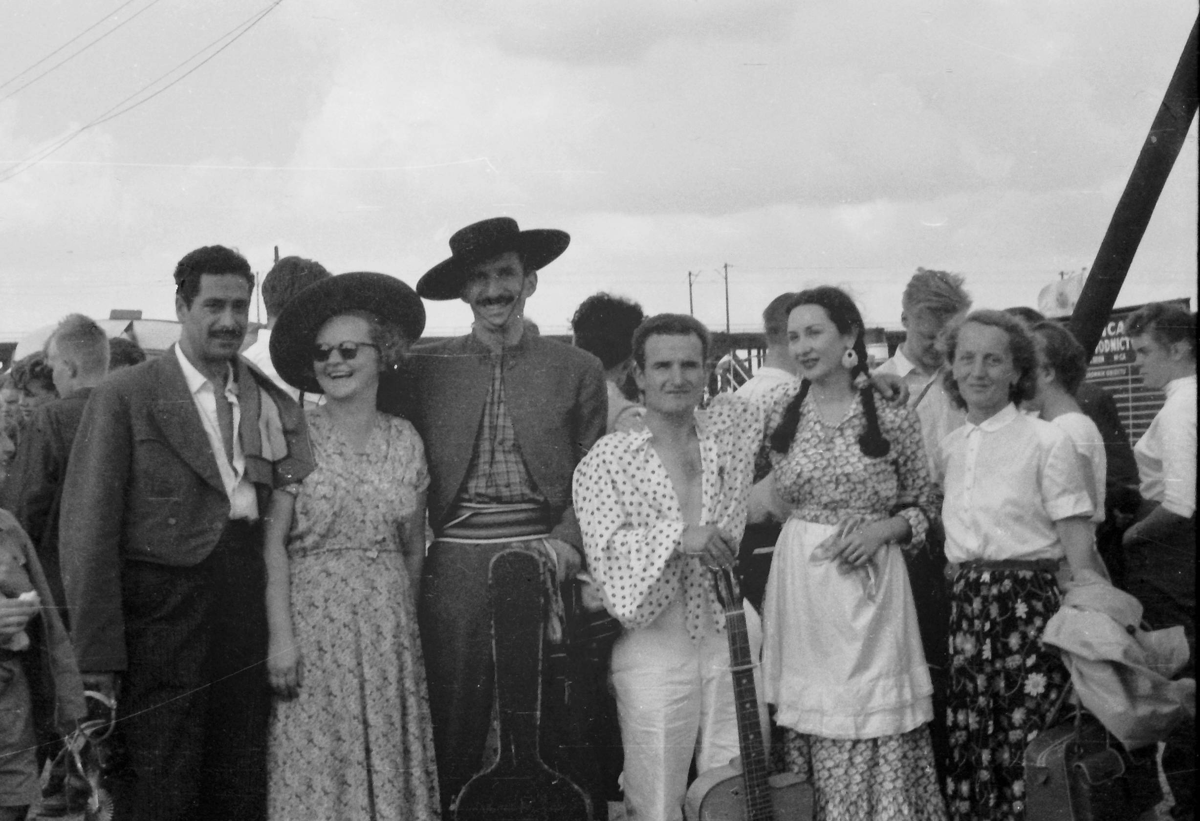 5th World Festival of Youth and Students 1955 in Warsaw. Attraction was the multicolored outfit of exotic guests.